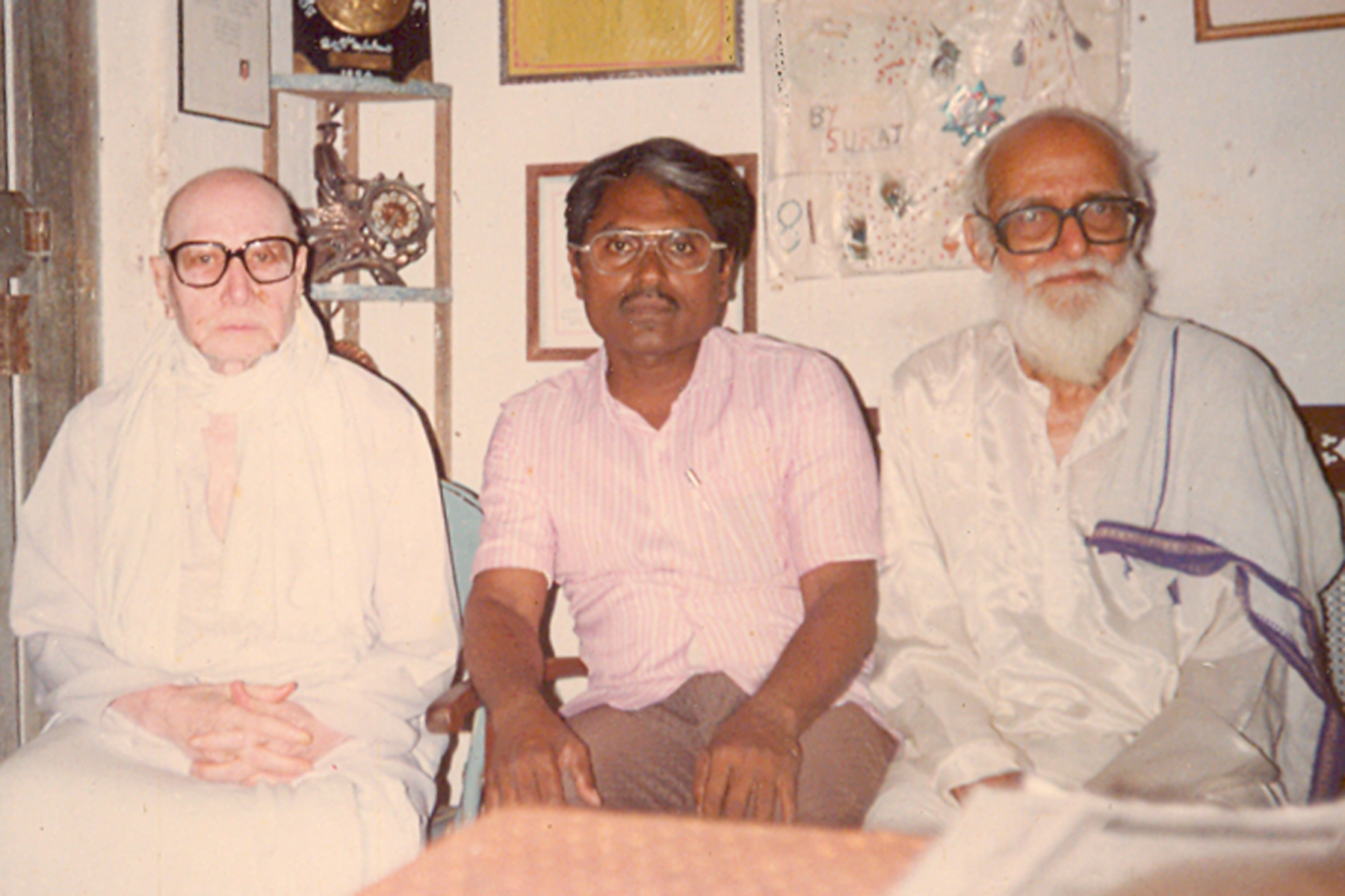 V. R. Vidyarthi (Veluri Ramulu) with Sri. Kaloji Rameshwara Rao, and Sri. Kaloji Narayana Rao